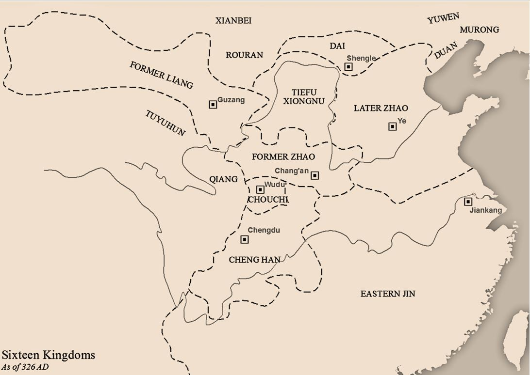 Map of Sixteen Kingdoms as of 326 AD